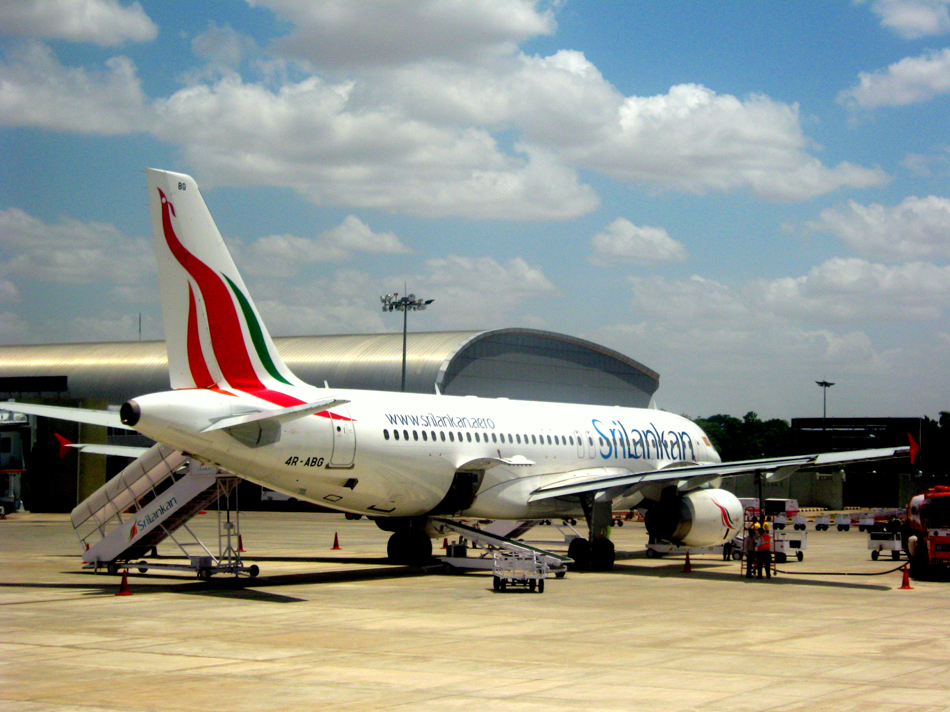 Sri Lankan Airlines aircraft parked at Trichy Airport